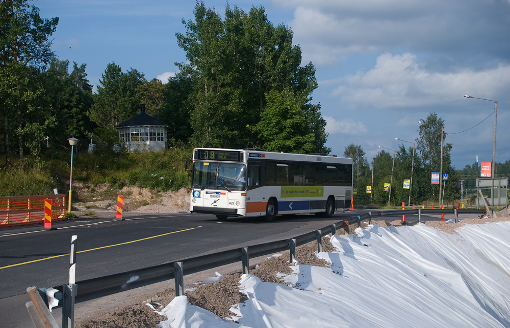 Carrus City L bus (#435) with Volvo B7RLE chassis in Espoo, Finland. Concordia Bus Finland from Espoo operator.